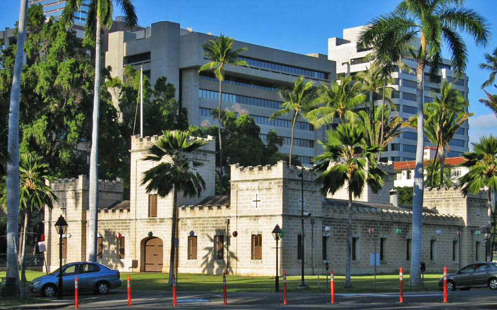 This is the barracks for the royal guard, built in 1871 at the site of the current Hawaii state capitol, and moved here in the 1960s.